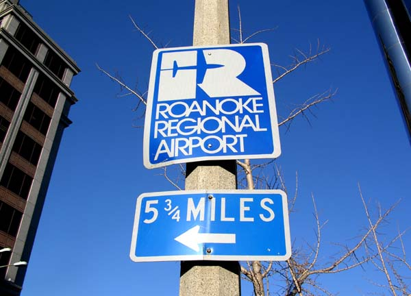 Typical signage for the Roanoke Regional Airport, Roanoke, Virginia, located downtown